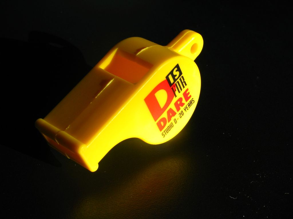 Studio D Promotional Whistle